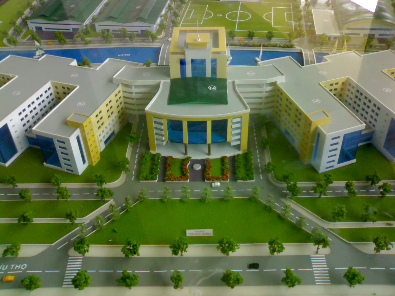 My picture